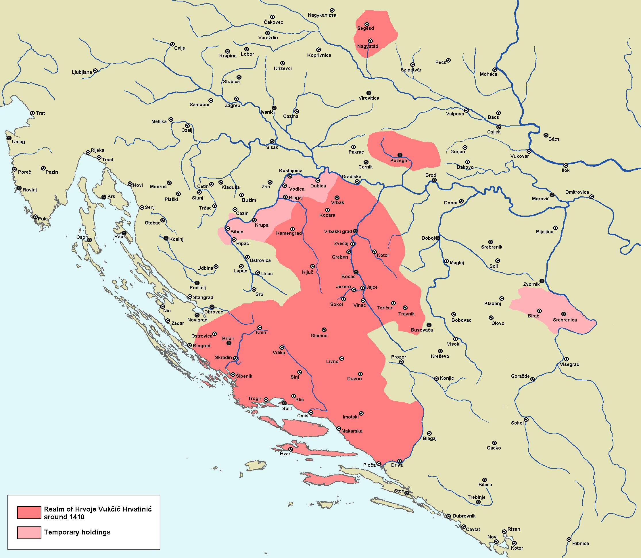 Realm of Hrvoje Vukčić Hrvatinić in the early 15th century, around 1410.